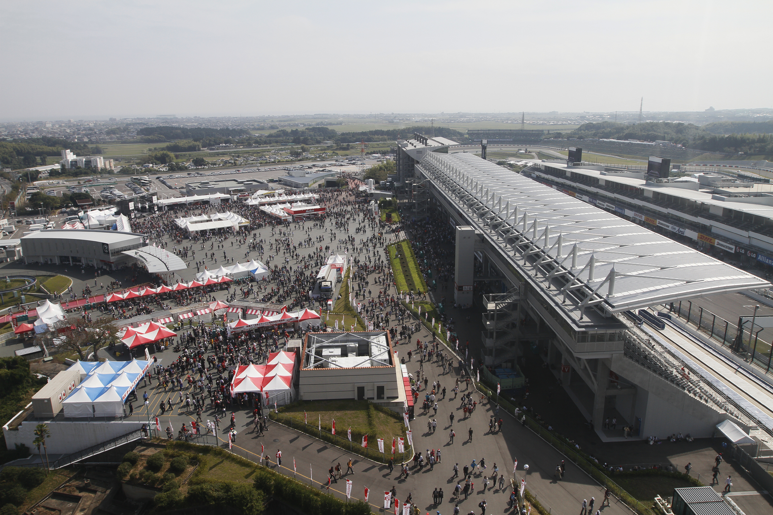 Formula One 2010 Rd.16 Japanese GP: Scenery of Grand Prix Square, between the main gate and grand stand of the circuit, on Friday.